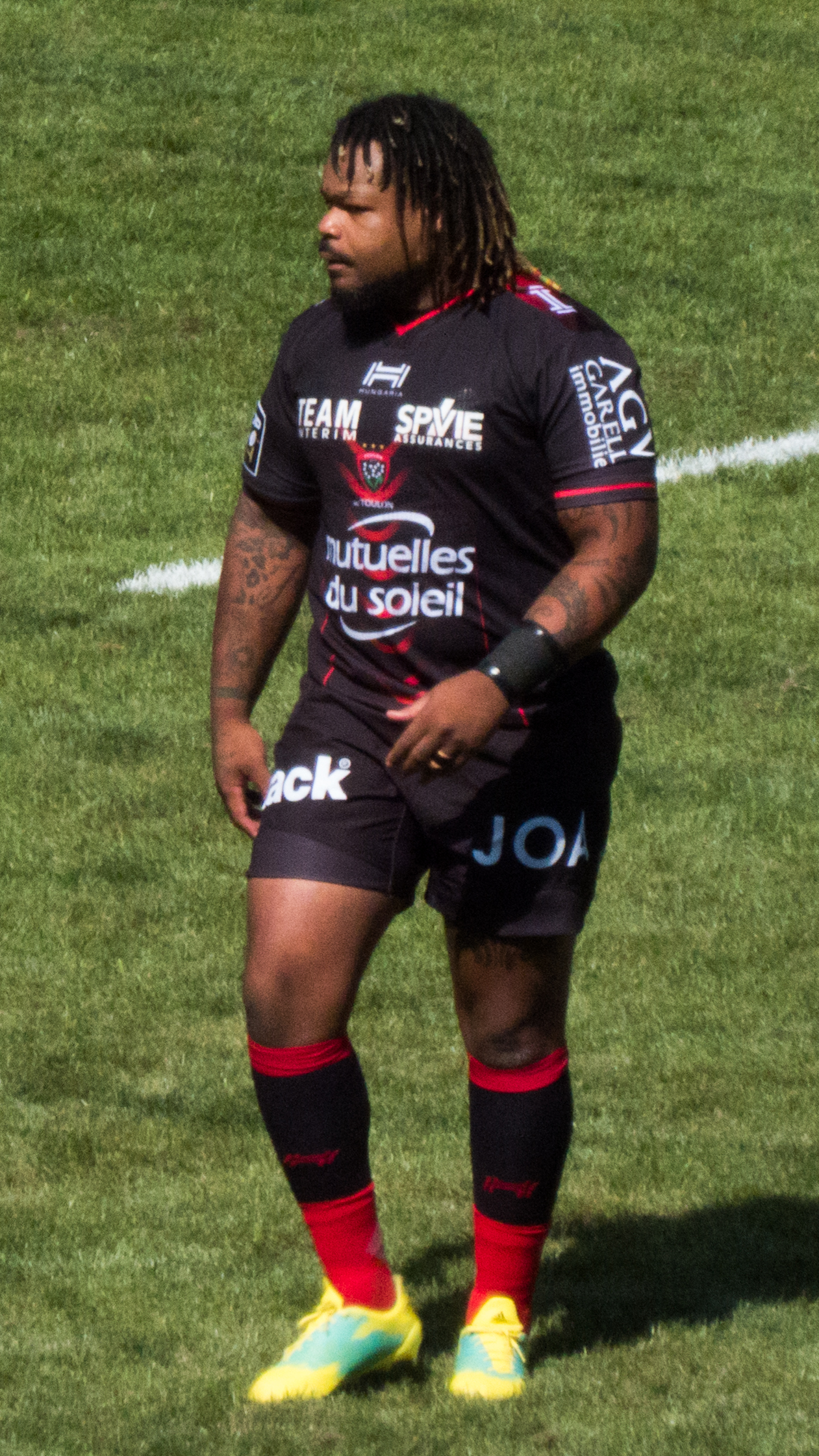 2018–19 Top 14 season — 1 September 2018, Stade du Hameau. Match between: Section Paloise — RC Toulonnais